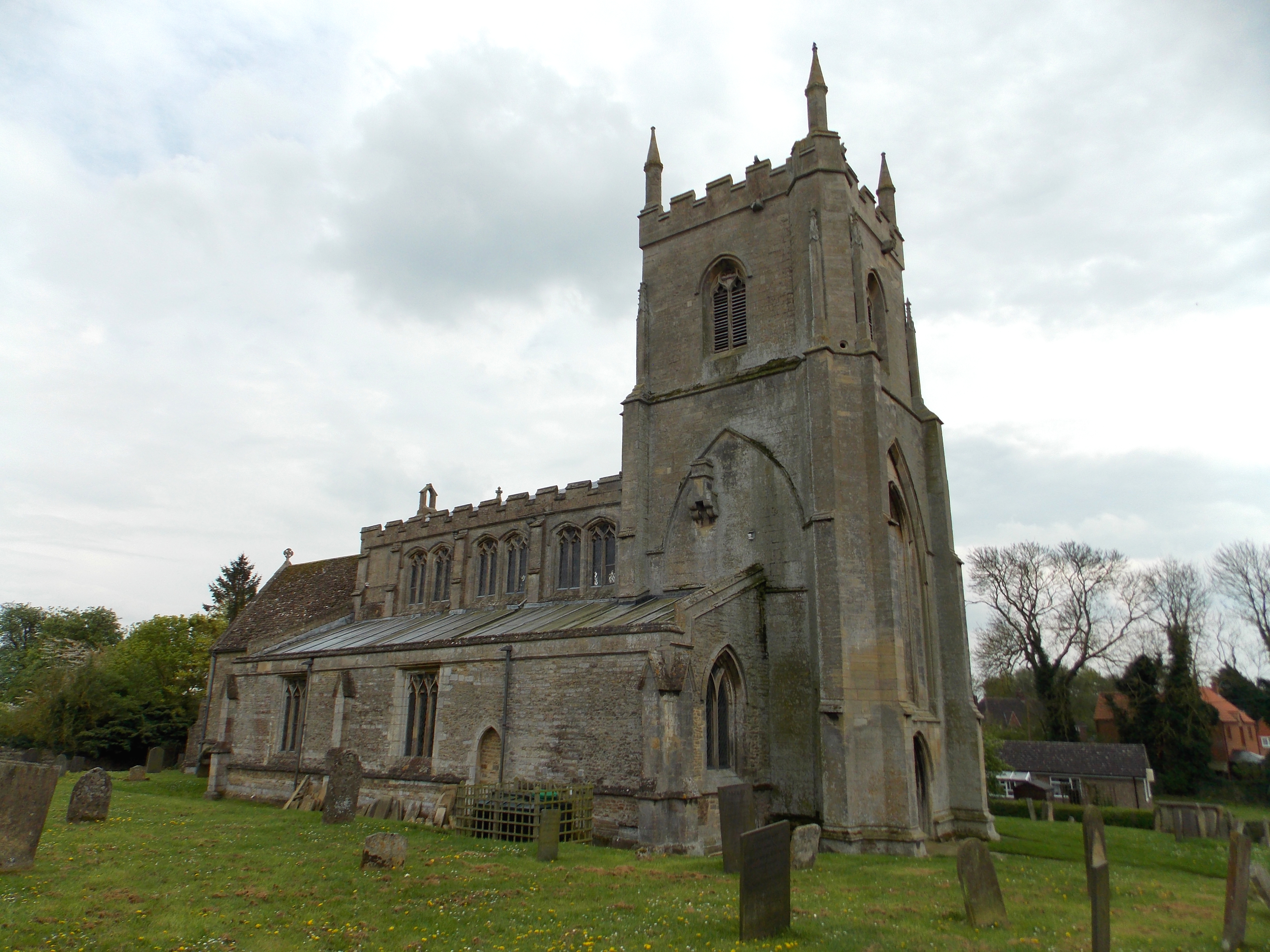 Aslackby St James, exterior- from the northwest